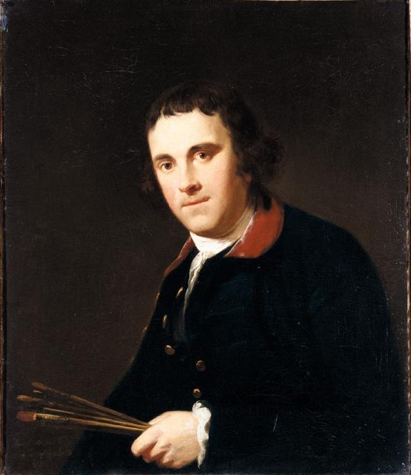 half length, wearing a blue coat with gold buttons and a white stock, holding paint brushes in his left hand